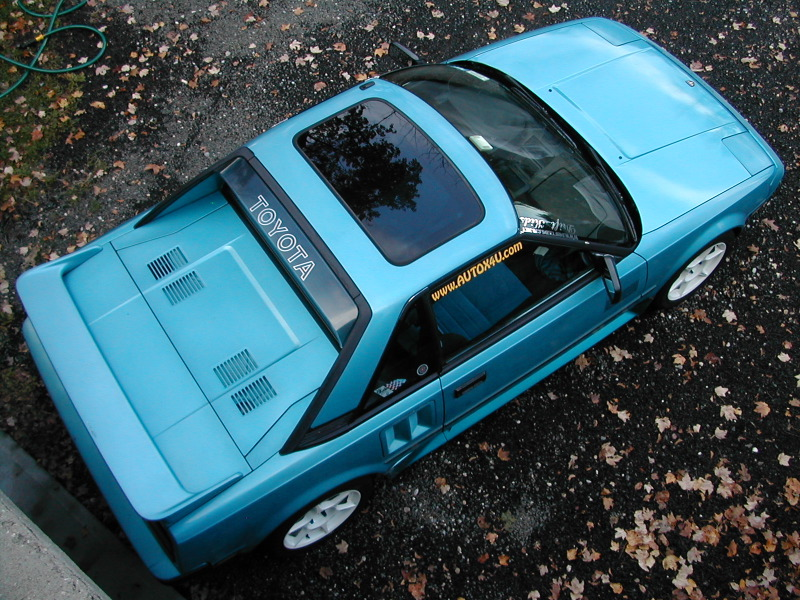 1985 AW11 Toyota MR2 in Light Blue Metallic (Paint Code 8B8), Sunroof model, with aftermarket wheels (15x7" Kosei K1 Racing in White Finish). Owner: Mike Choi / . Photographer: Mike Choi / . Original photo location